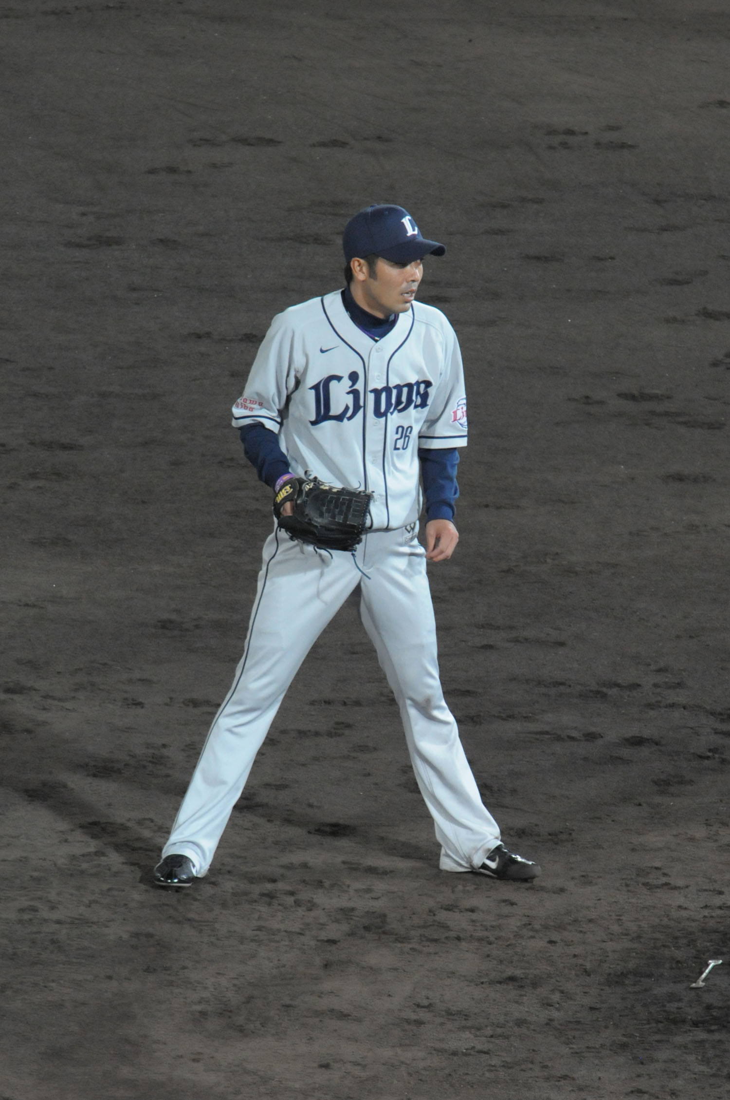 Tomoki Hoshino, pitcher of the Saitama Seibu Lions, at Akita Prefectural Baseball Stadium.